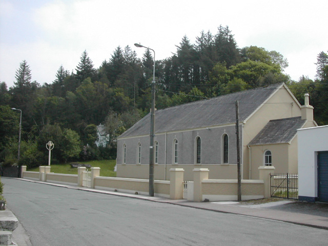 Church of Cúil Aodha The church of the Ghaeltacht village of Cúil Aodha (Coolea)